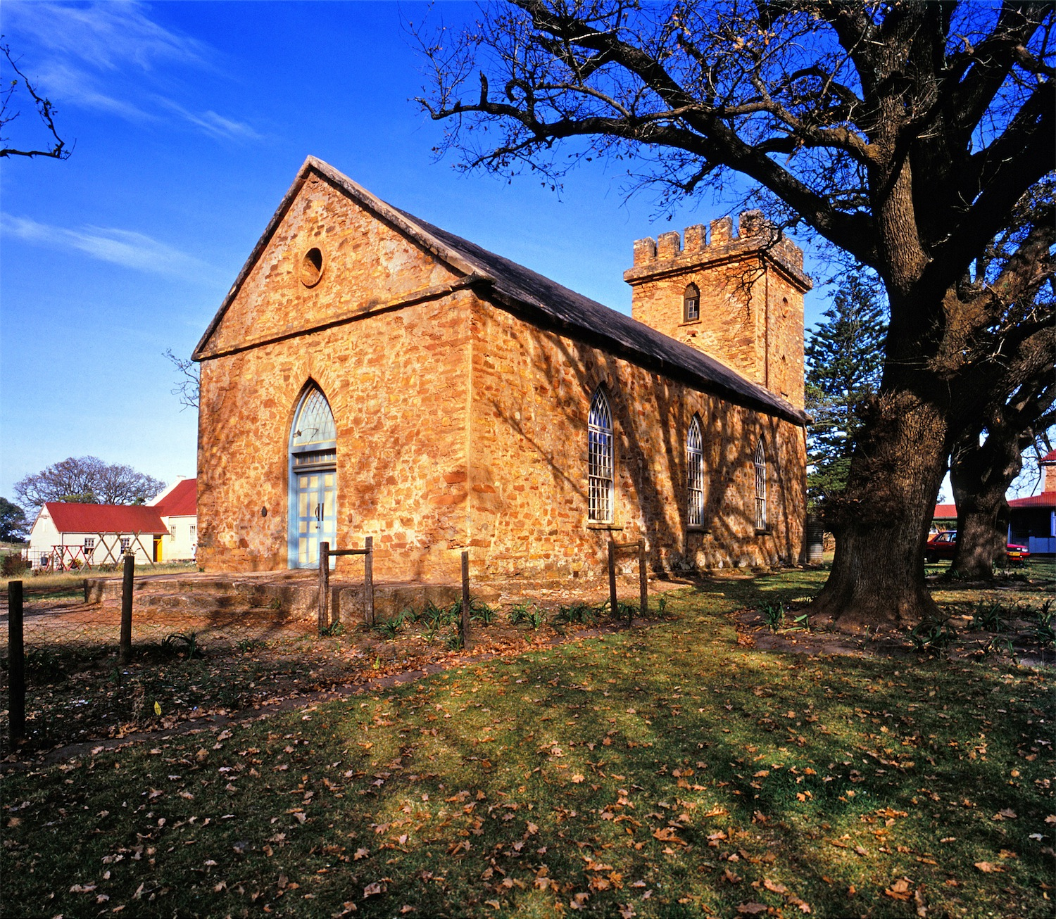 This media shows a South African Protected Site with SAHRA file reference 9/2/030/0007.